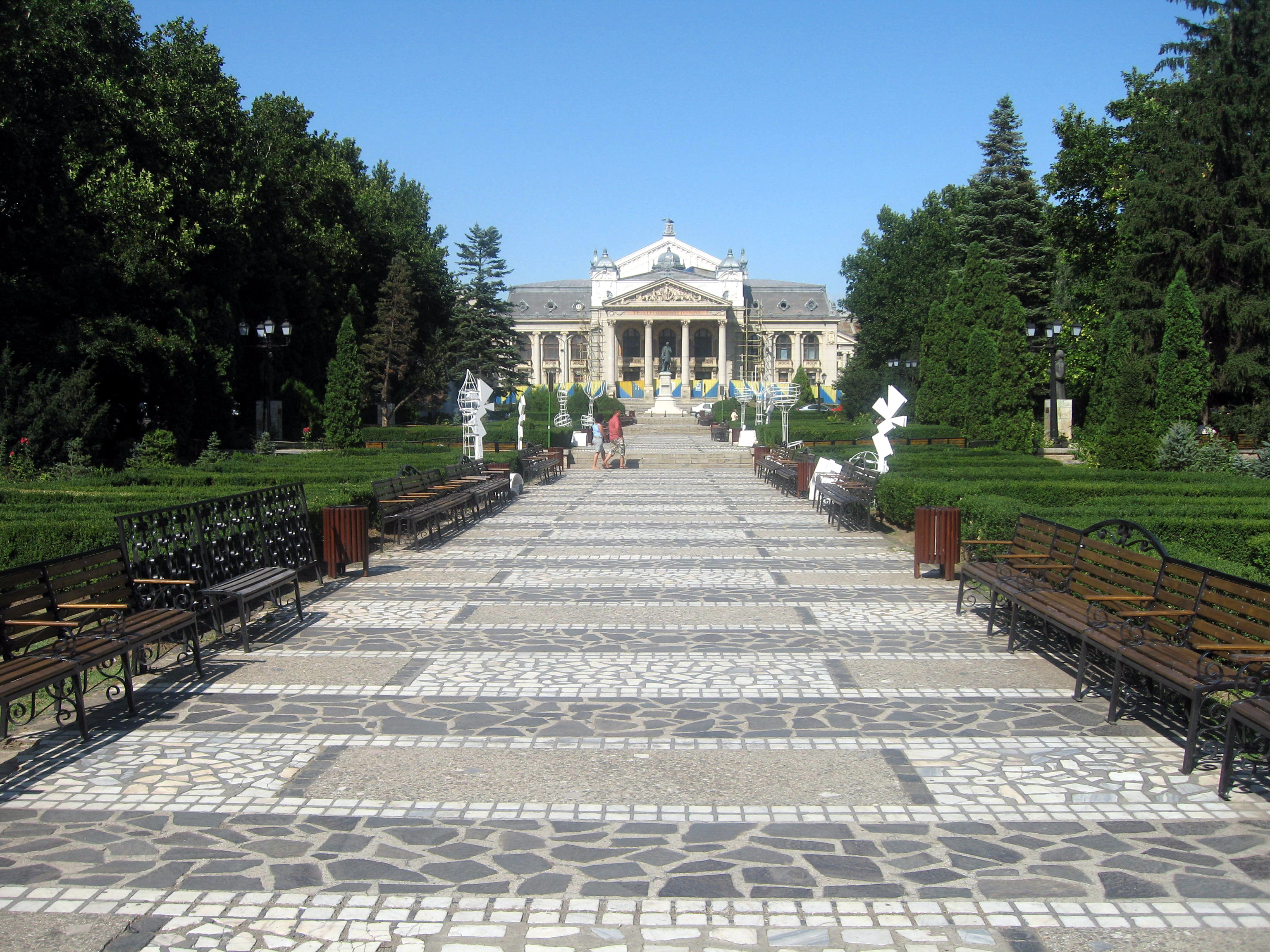 National Theatre in Iași